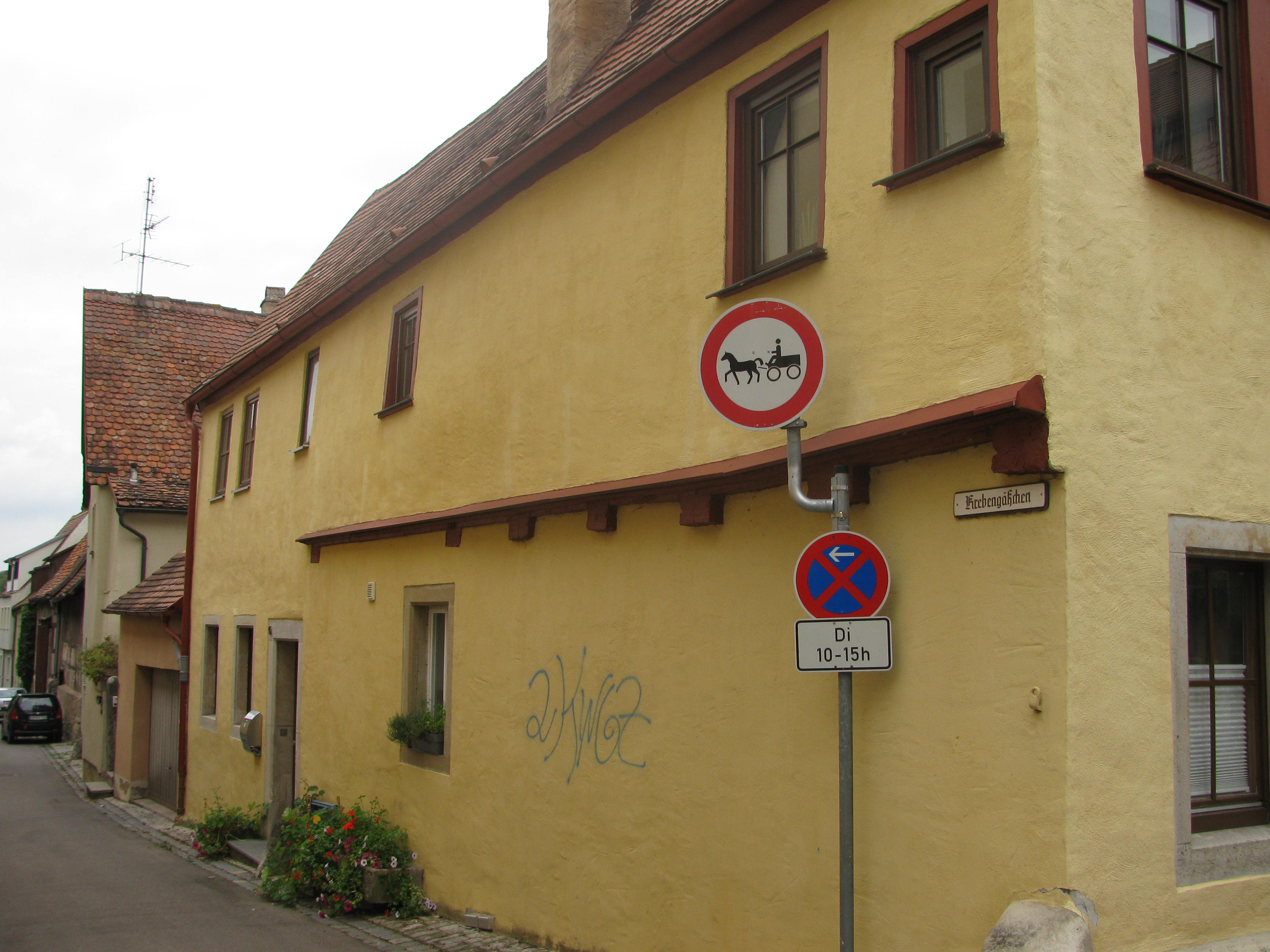 Horse carriage entrance forbidden sign, Rothenburg ob der Tauber, Bavaria, Germany